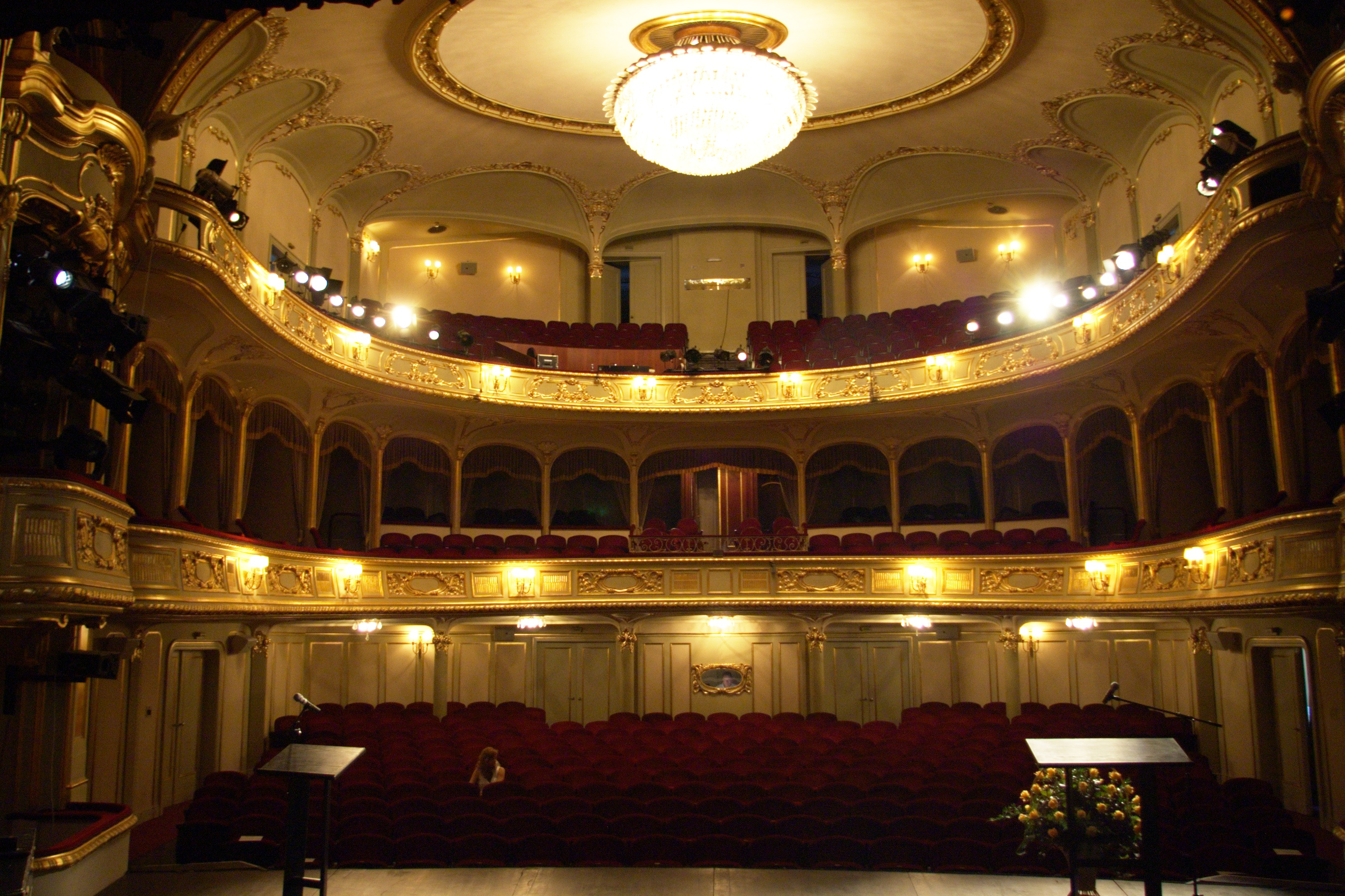 Wilam Horzyca Theatre in Toruń - auditorium.